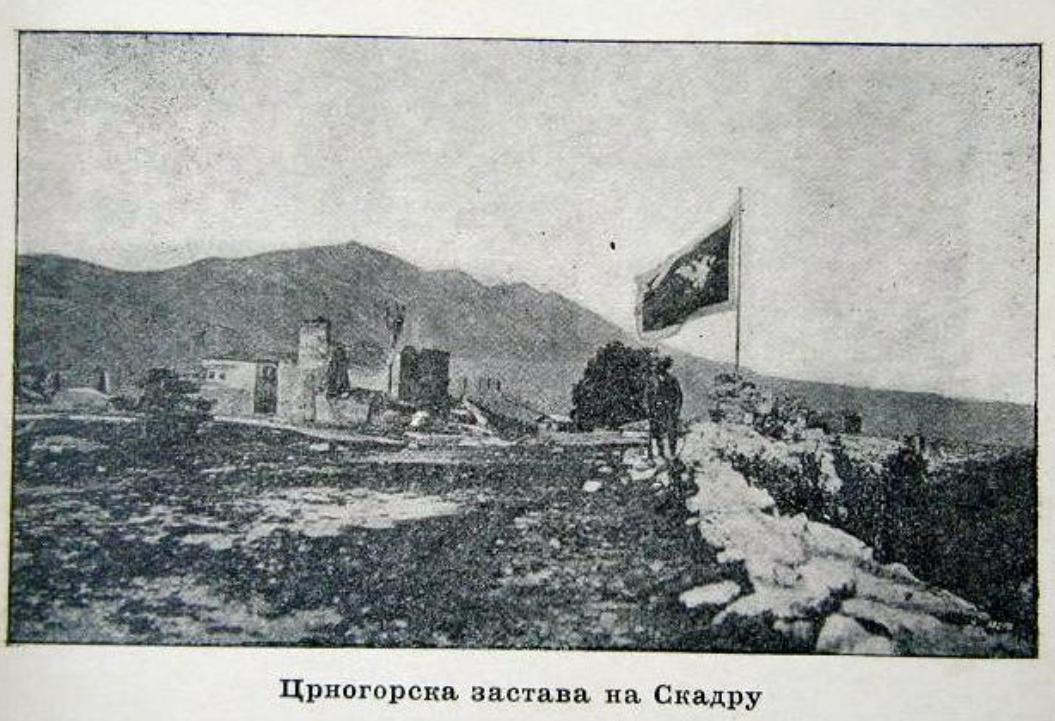 Montenegrin flag on the wall of Scutari, 1913.